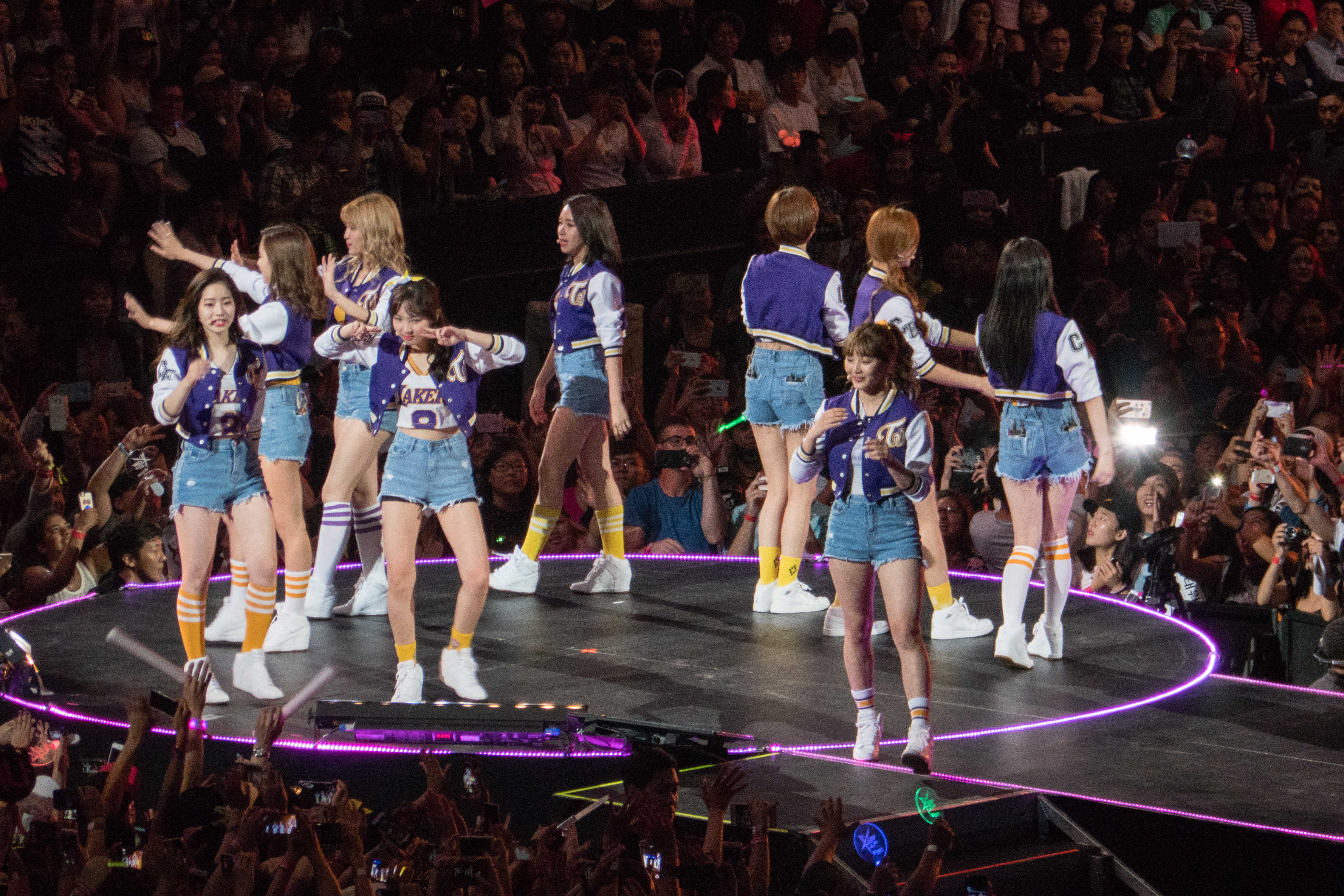 Twice (트와이스) live at KCON16 LA